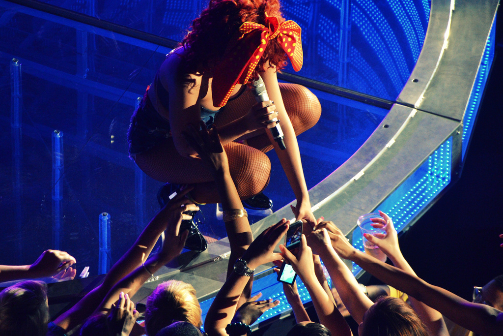 Rihanna live in Baltimore, on her tour The LOUD Tour. 4th June 2011